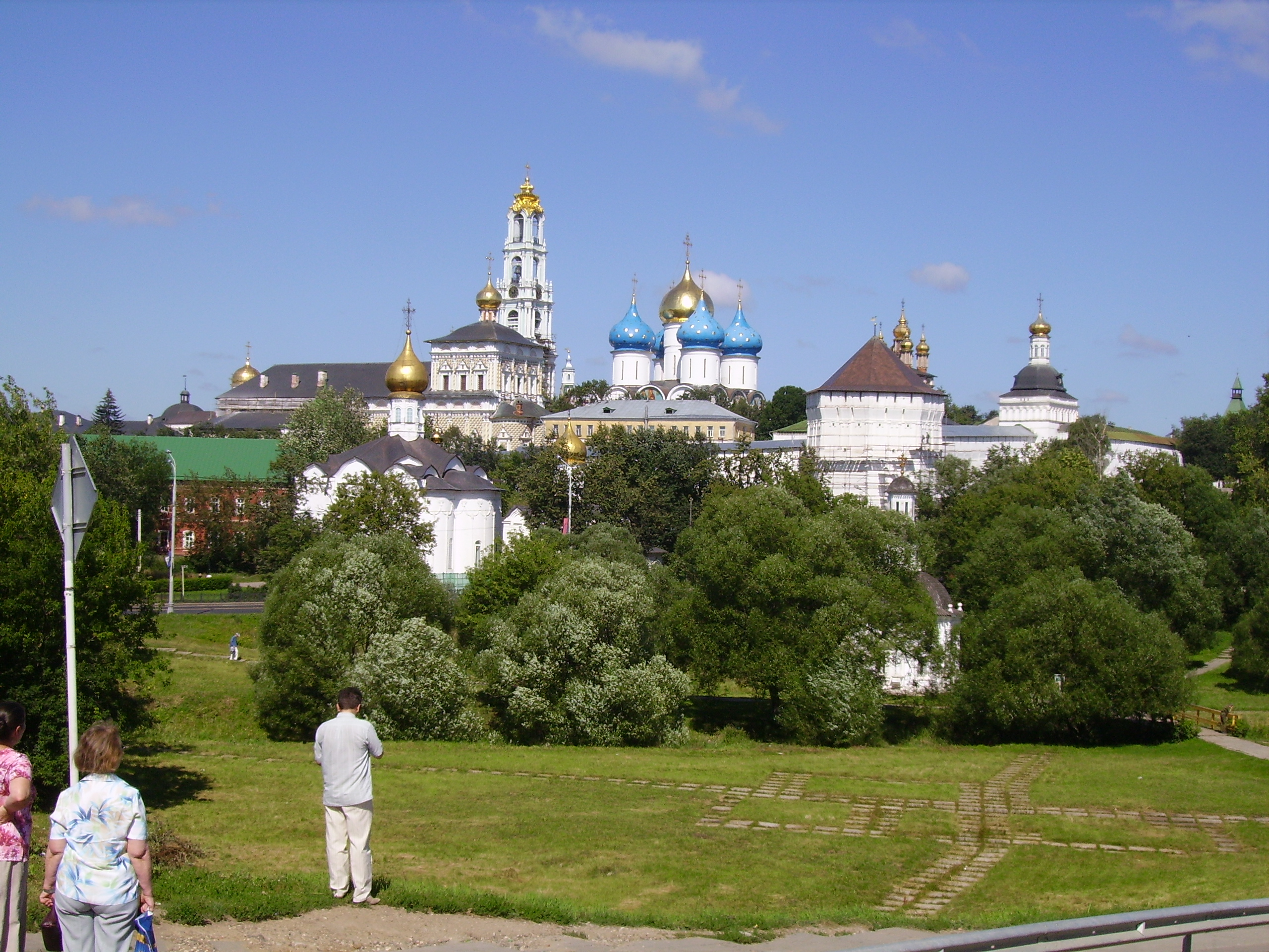 Trinity Lavra of St. Sergius in Sergiev Posad.